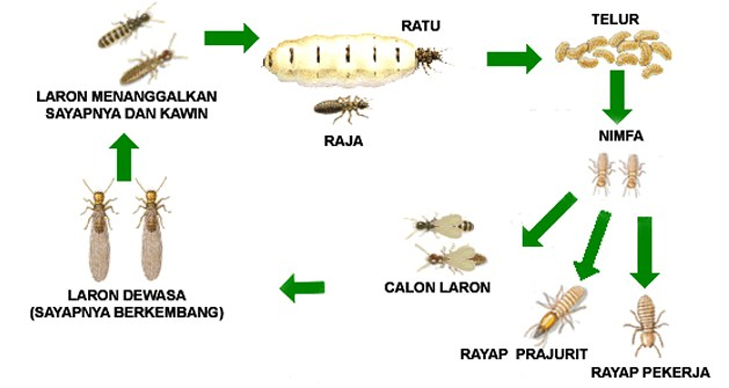 bentuk kehidupan rayap